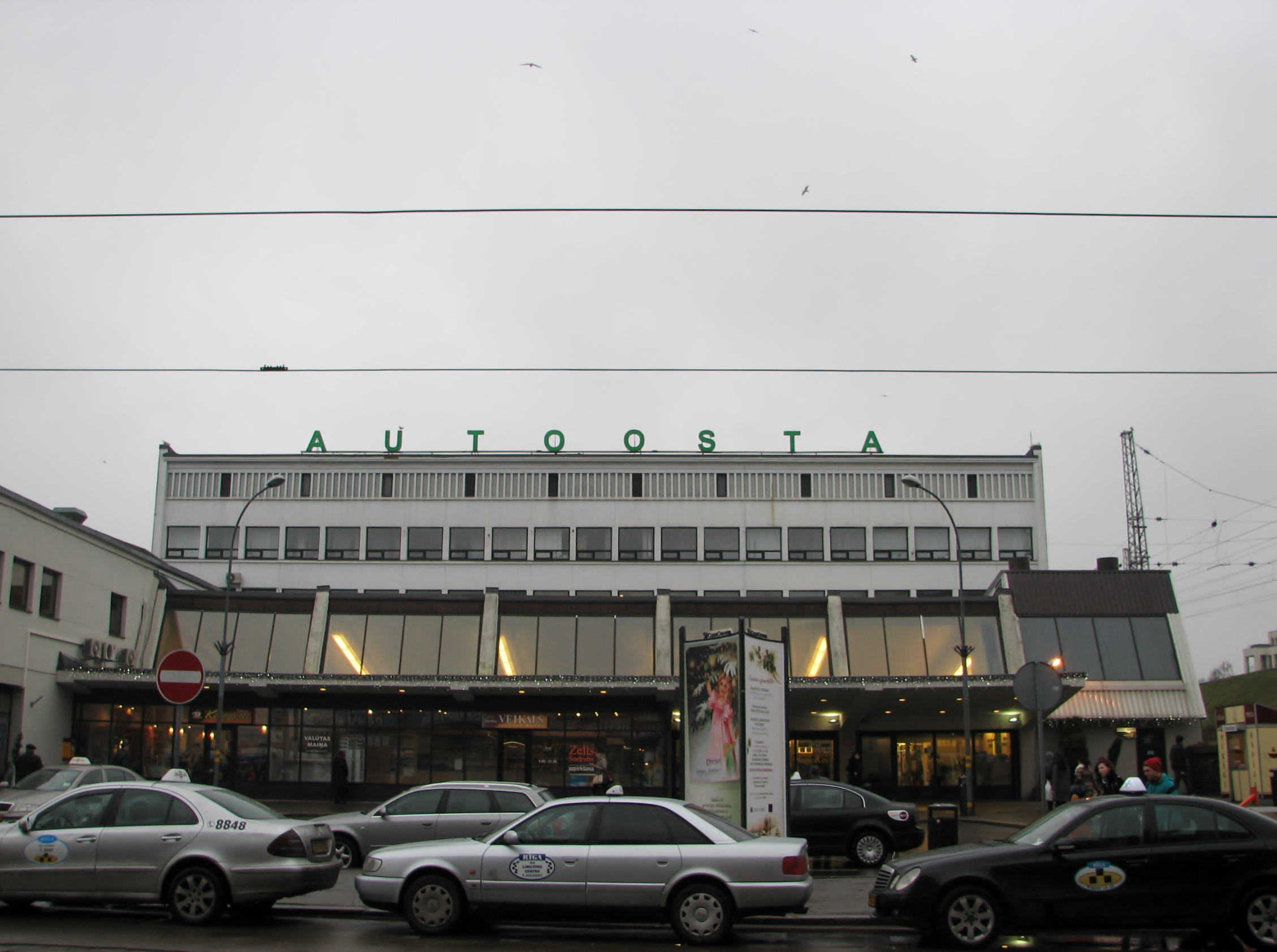 Riga International Bus Station. Prāgas iela 1, Latgales priekšpilsēta, Riga